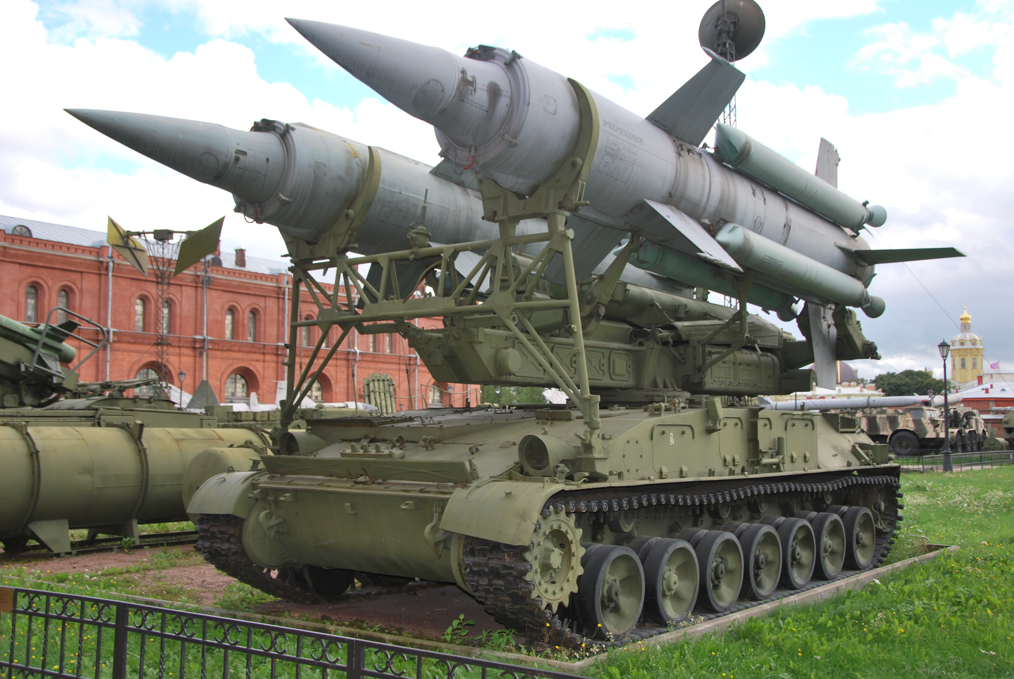 2P24 Transporter-Erector-Launcher with two 3M8 missiles of 2K1 surface-to-air missile complex «Krug» in Saint-Petersburg Artillery museum